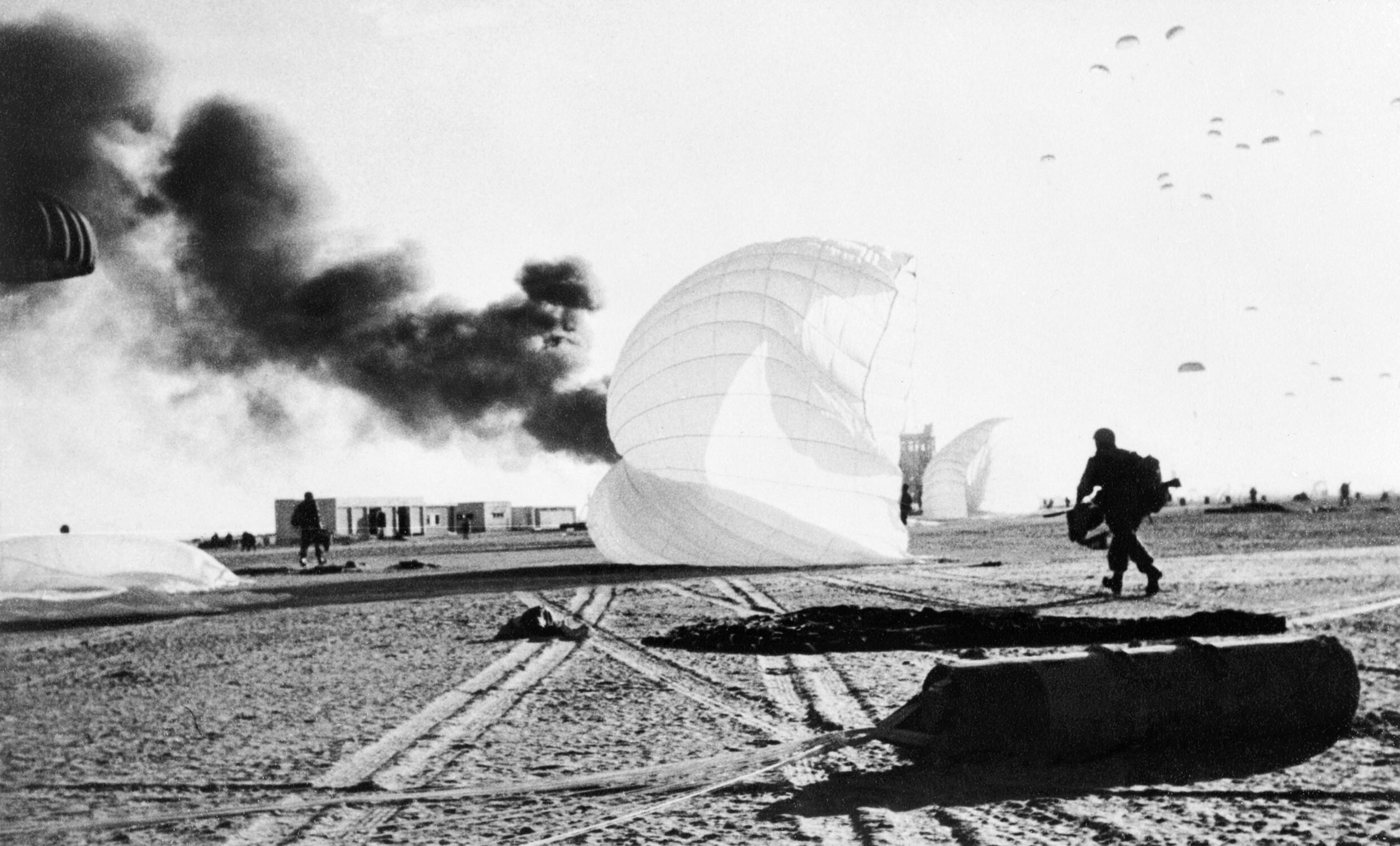 Men of A Company, 3rd Battalion, The Parachute Regiment of the first lift of the airborne assault on El Gamil Airfield, Port Said, move in to take the airport buildings. Photograph taken at approximately 05 20 hours, the drop having commenced at 05 15 hours GMT.